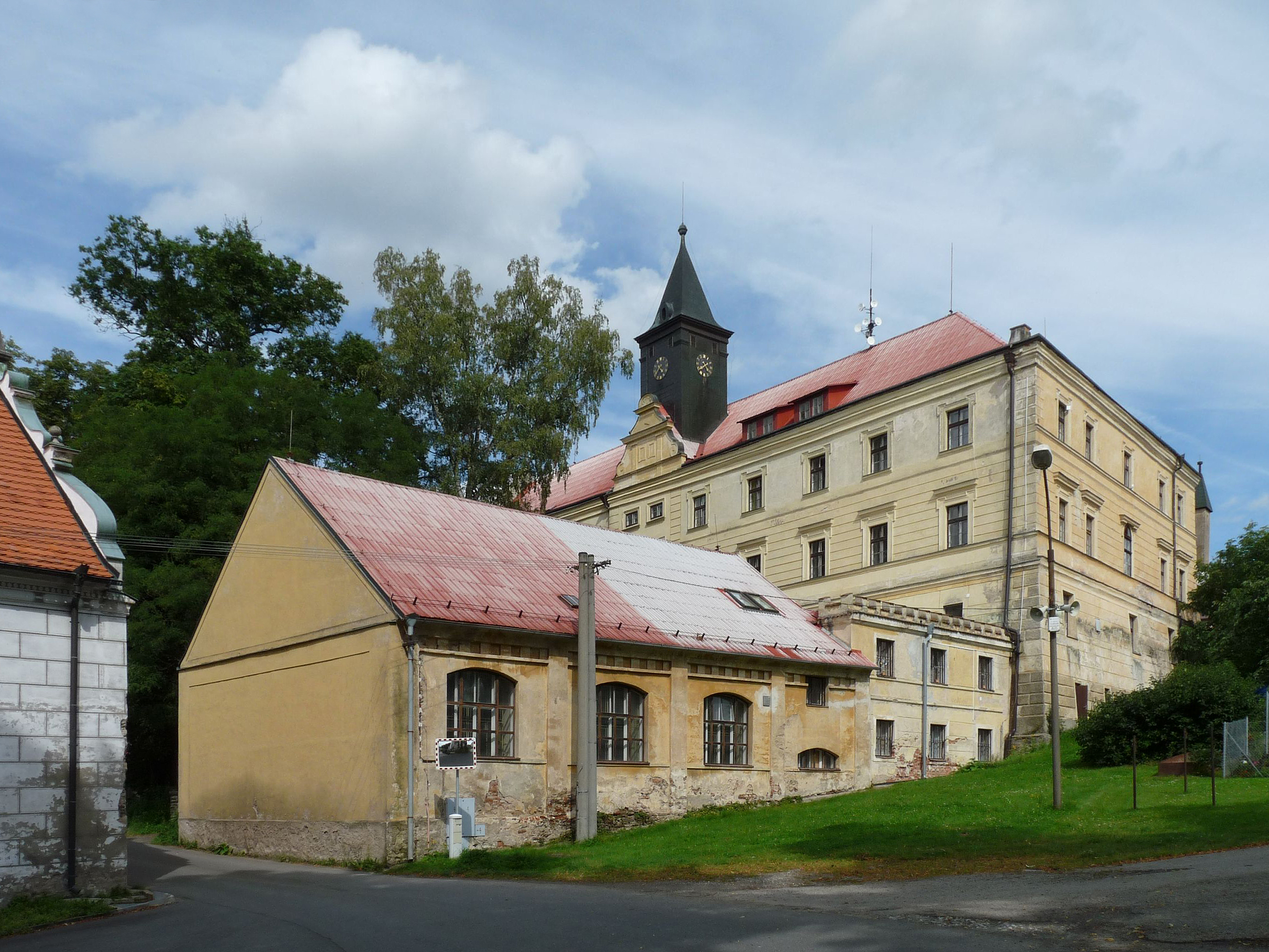 Castle in the village of Radenín, Tábor District, Czech Republic.